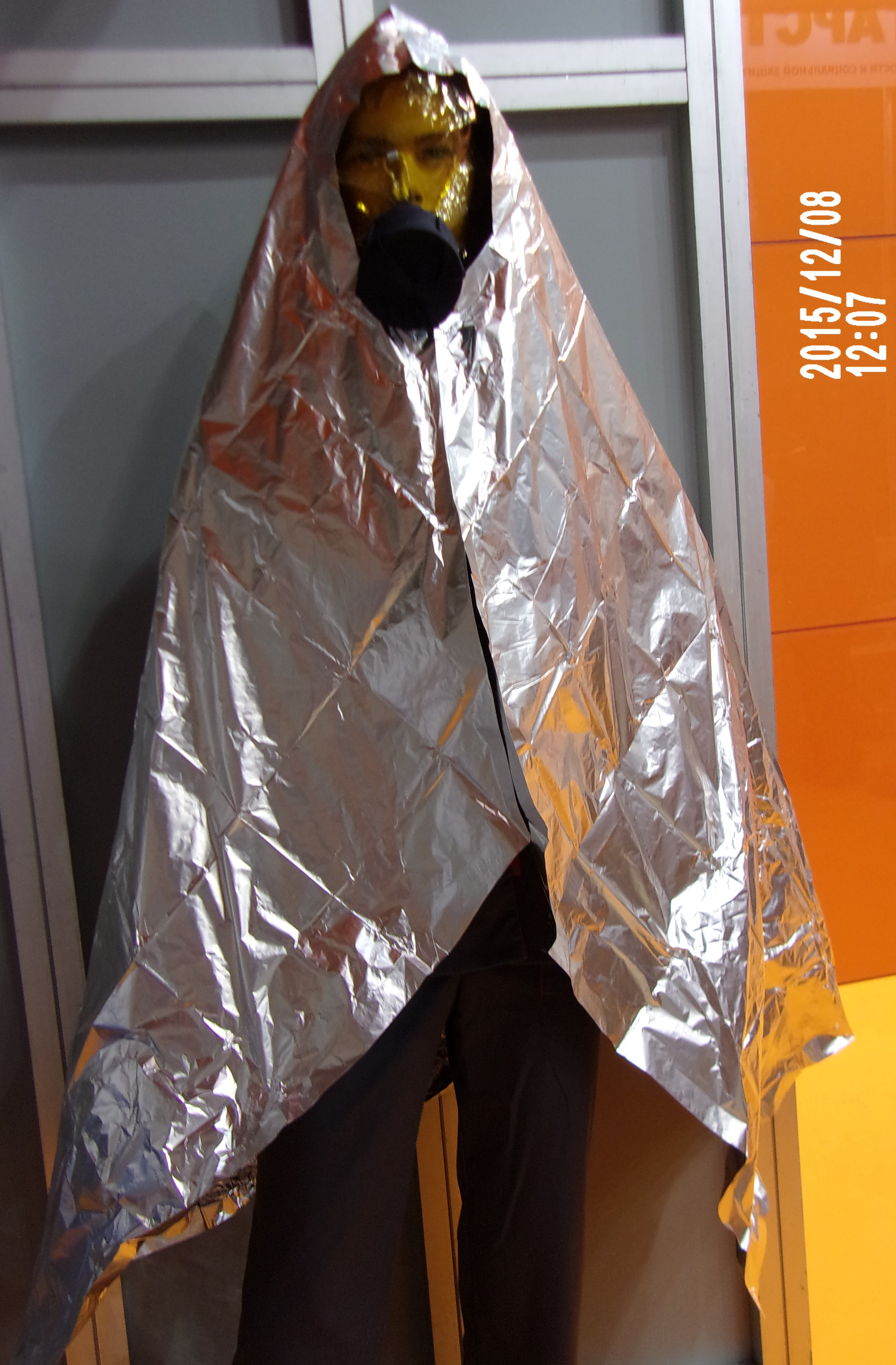 Filtering self-rescuer. Used for evacuation from danger areas during the fire.